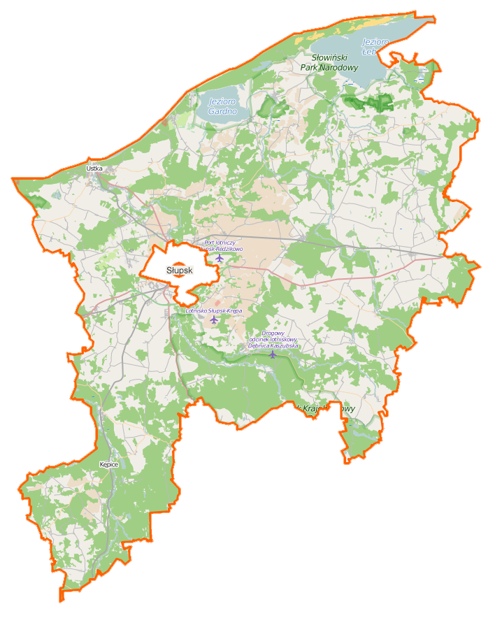 Map of Powiat słupski, Poland This map of Powiat słupski was created from OpenStreetMap project data, collected by the community. This map may be incomplete, and may contain errors. Don't rely solely on it for navigation.